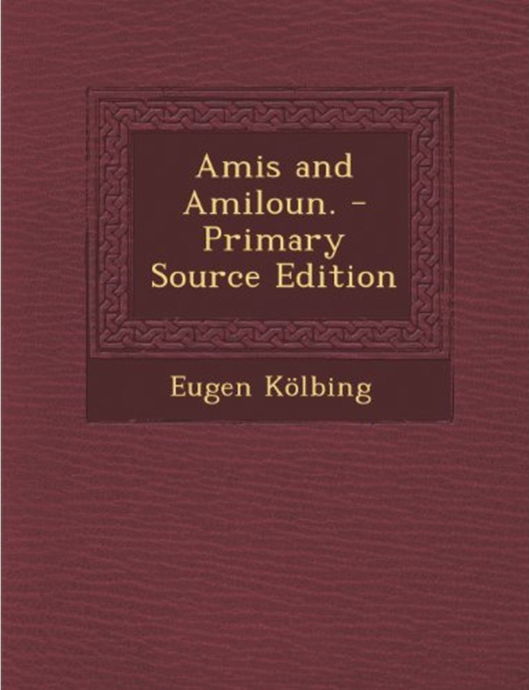 Amis and Amiloun. - Primary Source Edition. Edited by Eugen Kölbing.